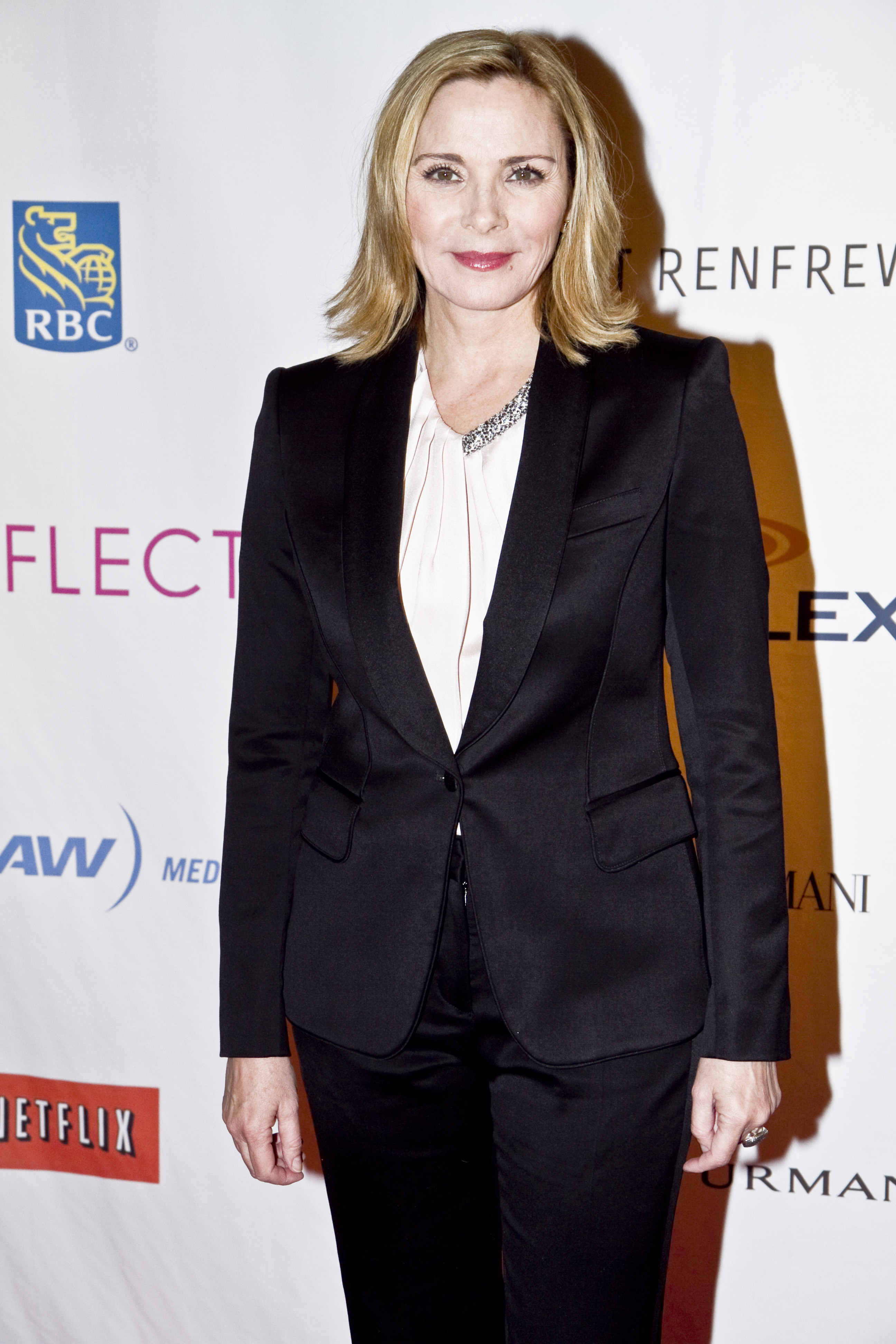 Kim Cattrall at ЯEFLECT - 18th CFC Annual Gala & Auction. Photo by Trevor Haldenby. To learn more about the Canadian Film Centre, please visit